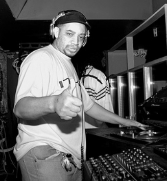 DJ Red Alert in July 2004.